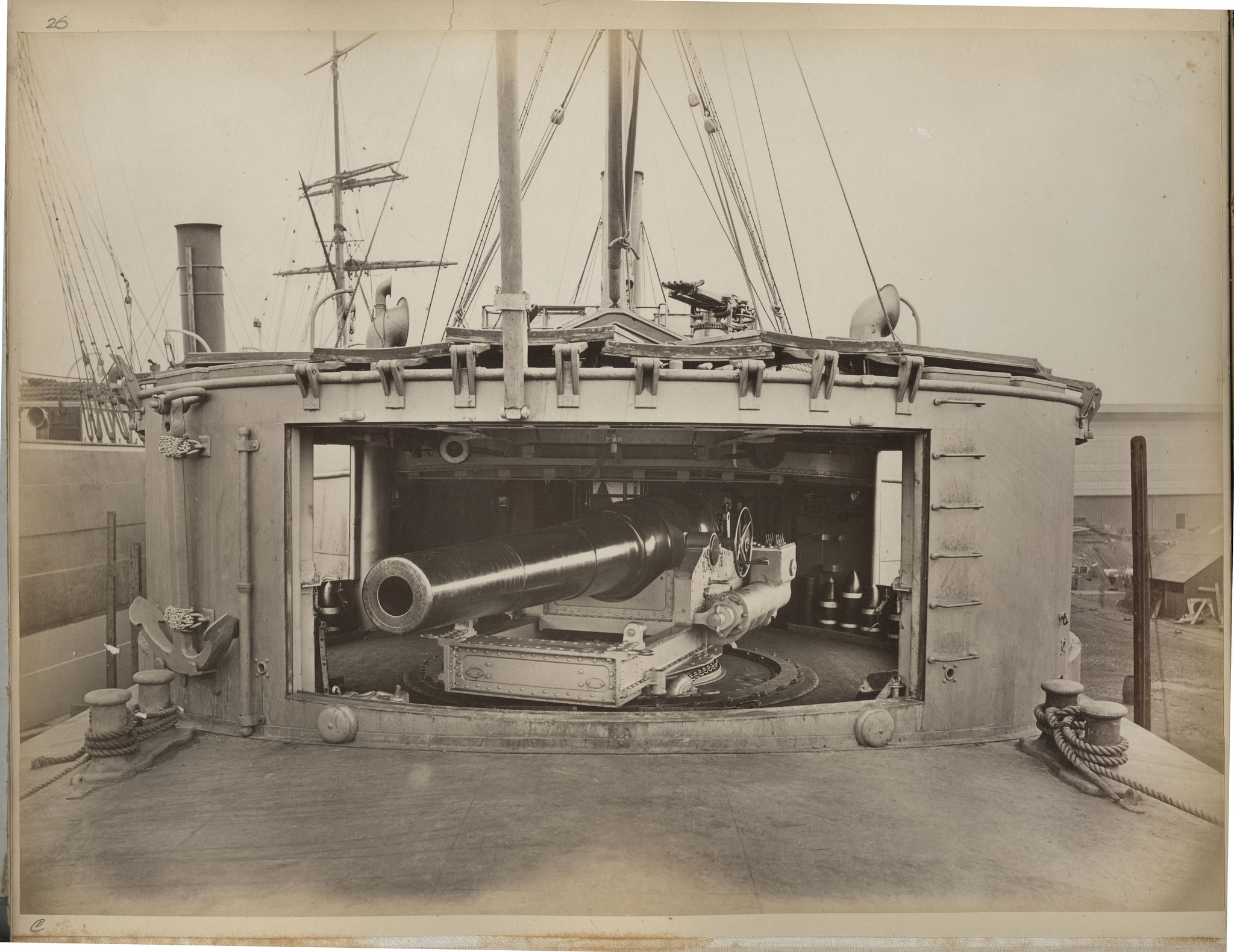 The main gun of the Chinese cruiser Yangwei